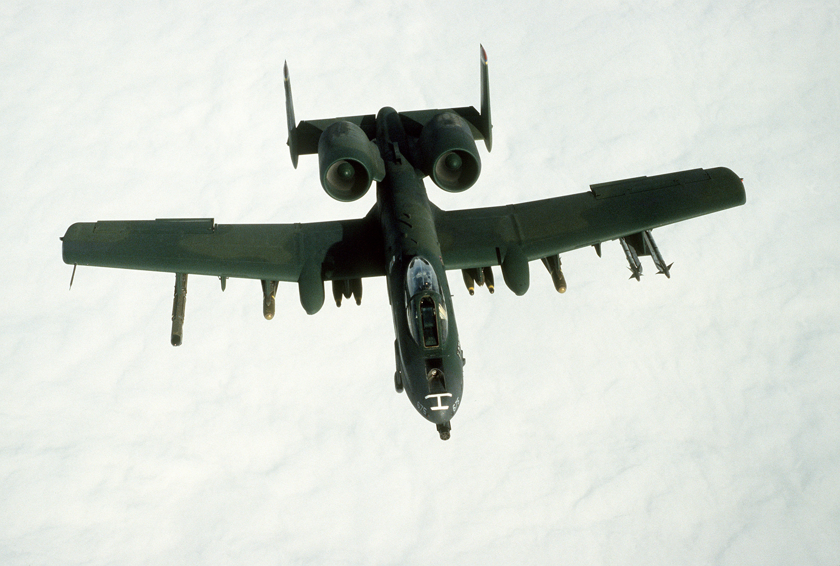 A U.S. Air Force A-10A Thunderbolt II aircraft takes part in a mission during Operation Desert Storm. The aircraft is armed with AIM-9 Sidewinder missiles, AGM-65 Maverick missiles and Mark 82 500-pound bombs.